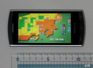 1seg reception image on Japanese cell phone NEC MEDIAS N-04C, quoted in low resolution along with the article 32 of Japanese Copyright Act .